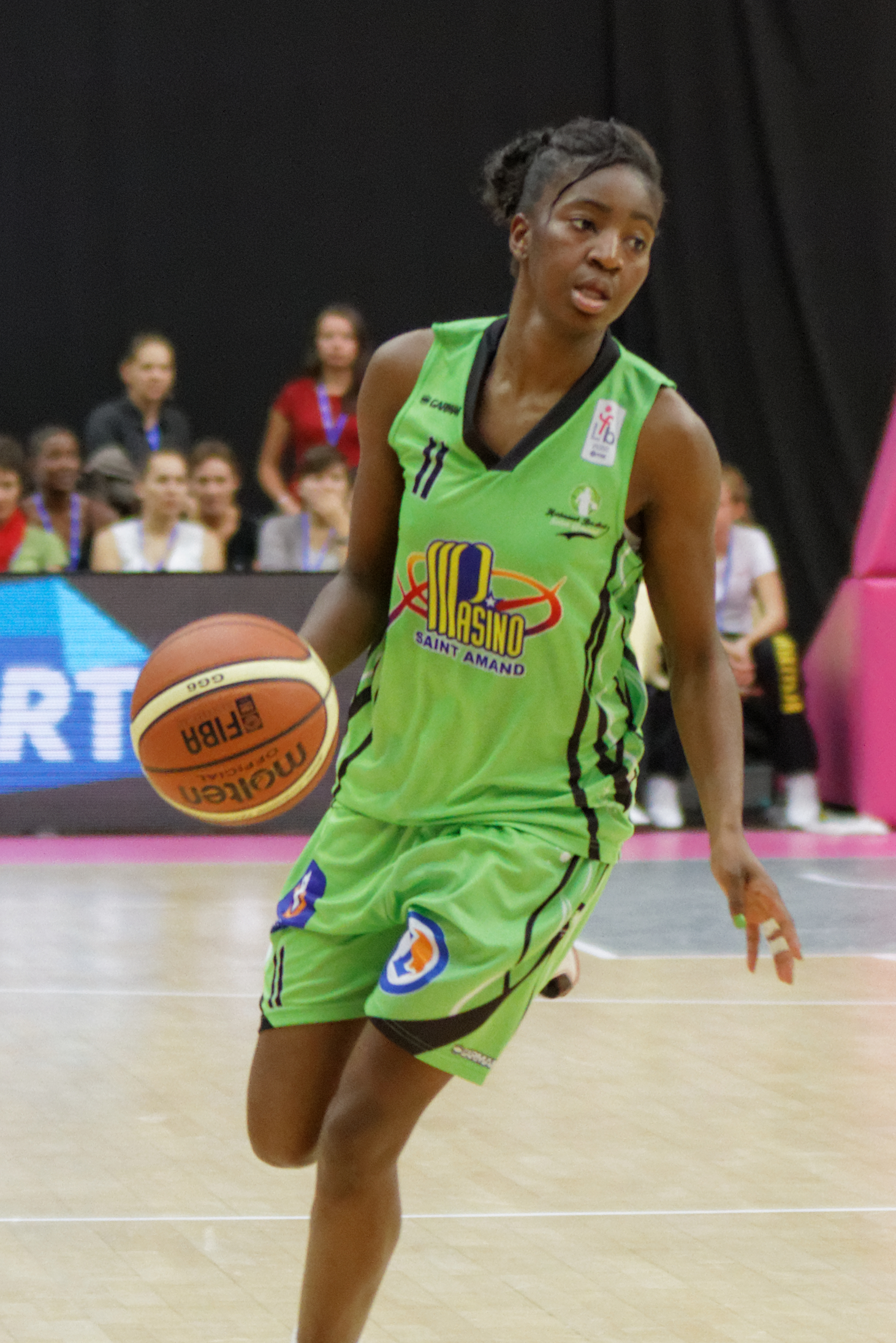 Open LFB, Hainaut Basket-Nantes Rezé, October 6th, 2013.